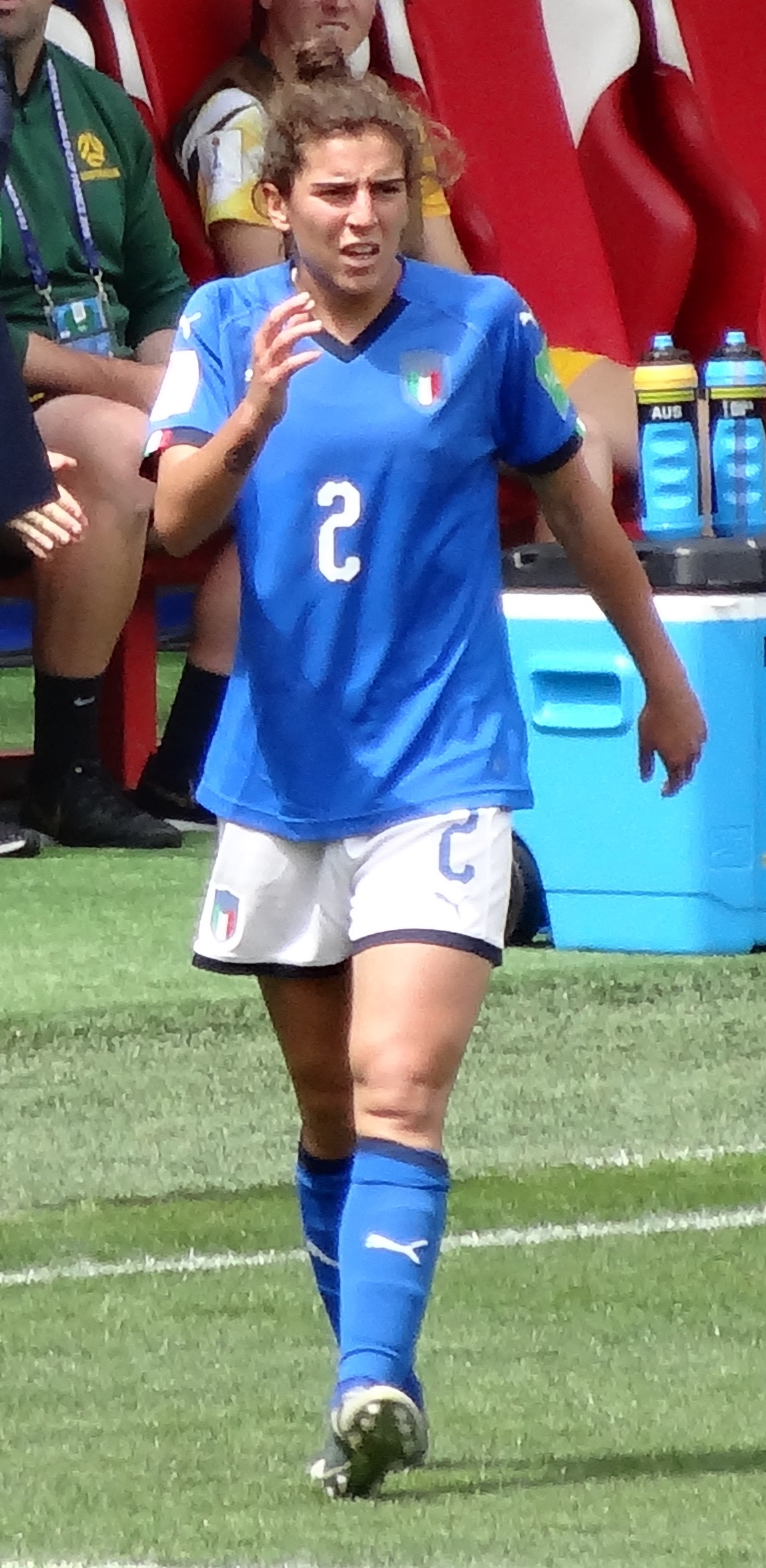 Valentina Bergamaschi (Italy World Cup 2019)